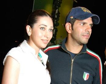 Indian actress Karisma Kapoor